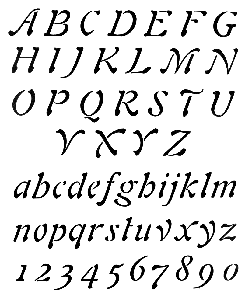 Auriol Italic typeface specimen cropped from Thibaudeau 1924